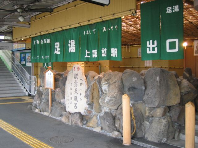 Feet hot spring at Kamisuwa Station in Japan